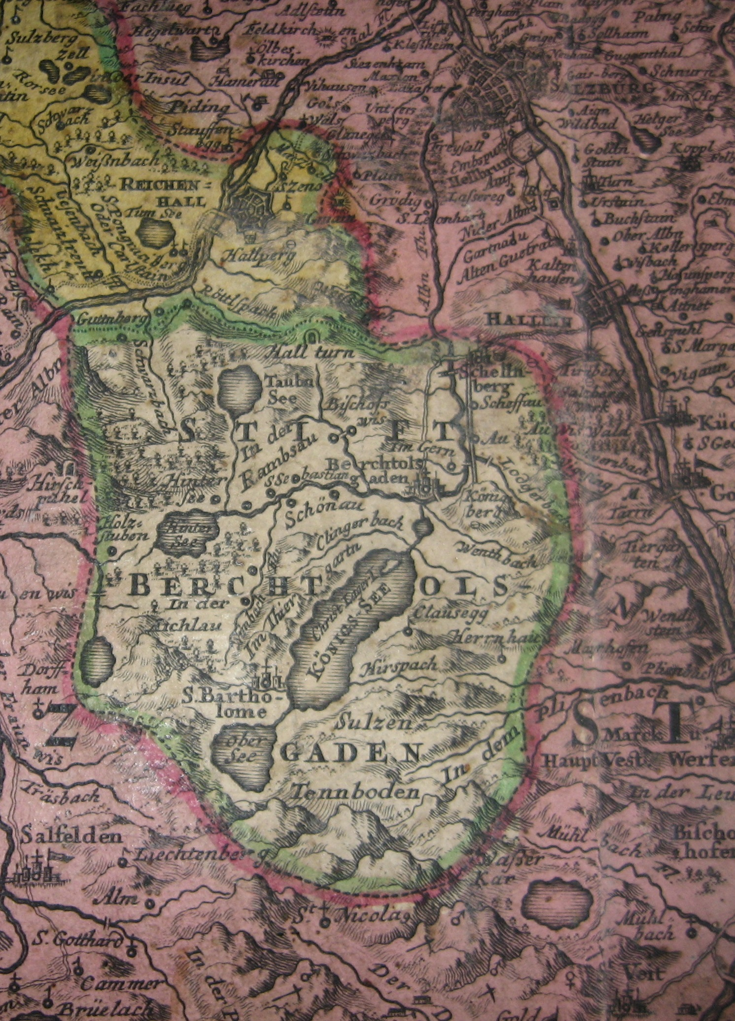 The Provostry of Berchtesgaden, encircled by the Prince-Archbishopric of Salzburg (in purple) and the Electorate of Bavaria (in yellow). Cropped from a map of Salzburg published by Johann Baptist Homann, c. 1715.